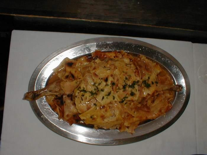 from the english Wikipedia, uploaded by "Vbranko"